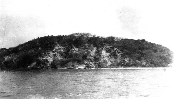 Turtle Mound near New Smyrna, Florida. Photo by Sellards, Elias Howard, b. 1875.